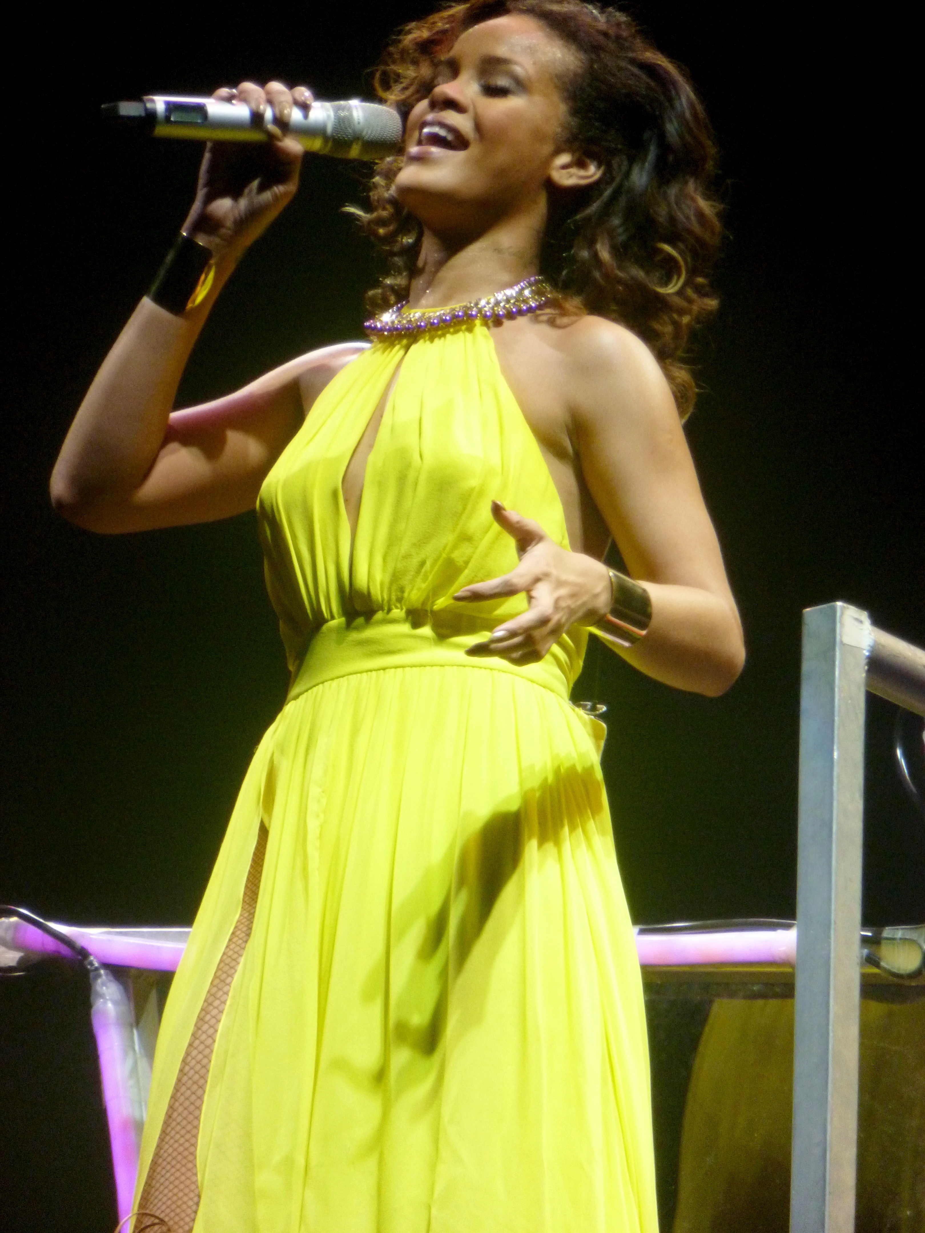 Rihanna in concert at the Paris Bercy during the "Loud Tour" in October 2011.